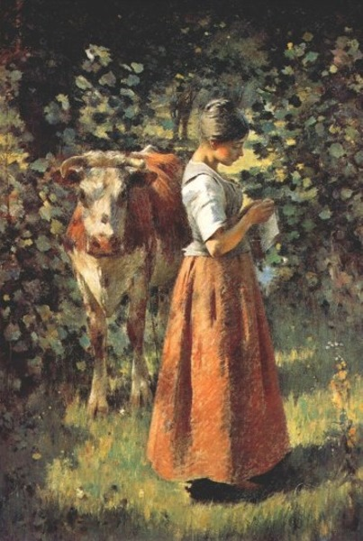 La Vachère